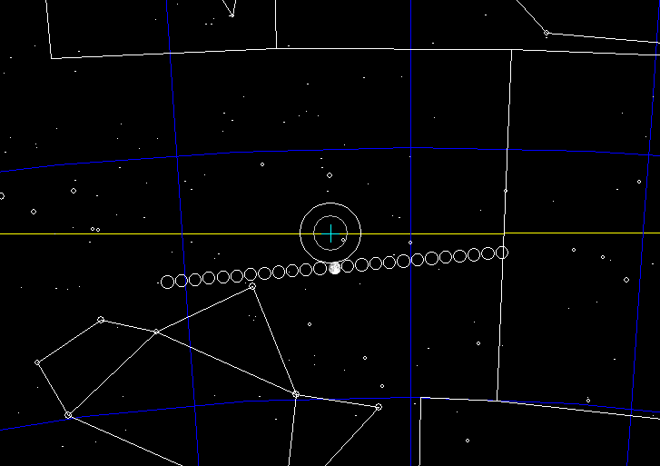 June_2002_lunar_eclipse chart The position of the moon (and earth's shadow) are shown as viewed from center of earth (small parallel occurs from specific location on surface of the earth. The moon is drawn at maximum eclipse, and circles for every hour interval of motion. }